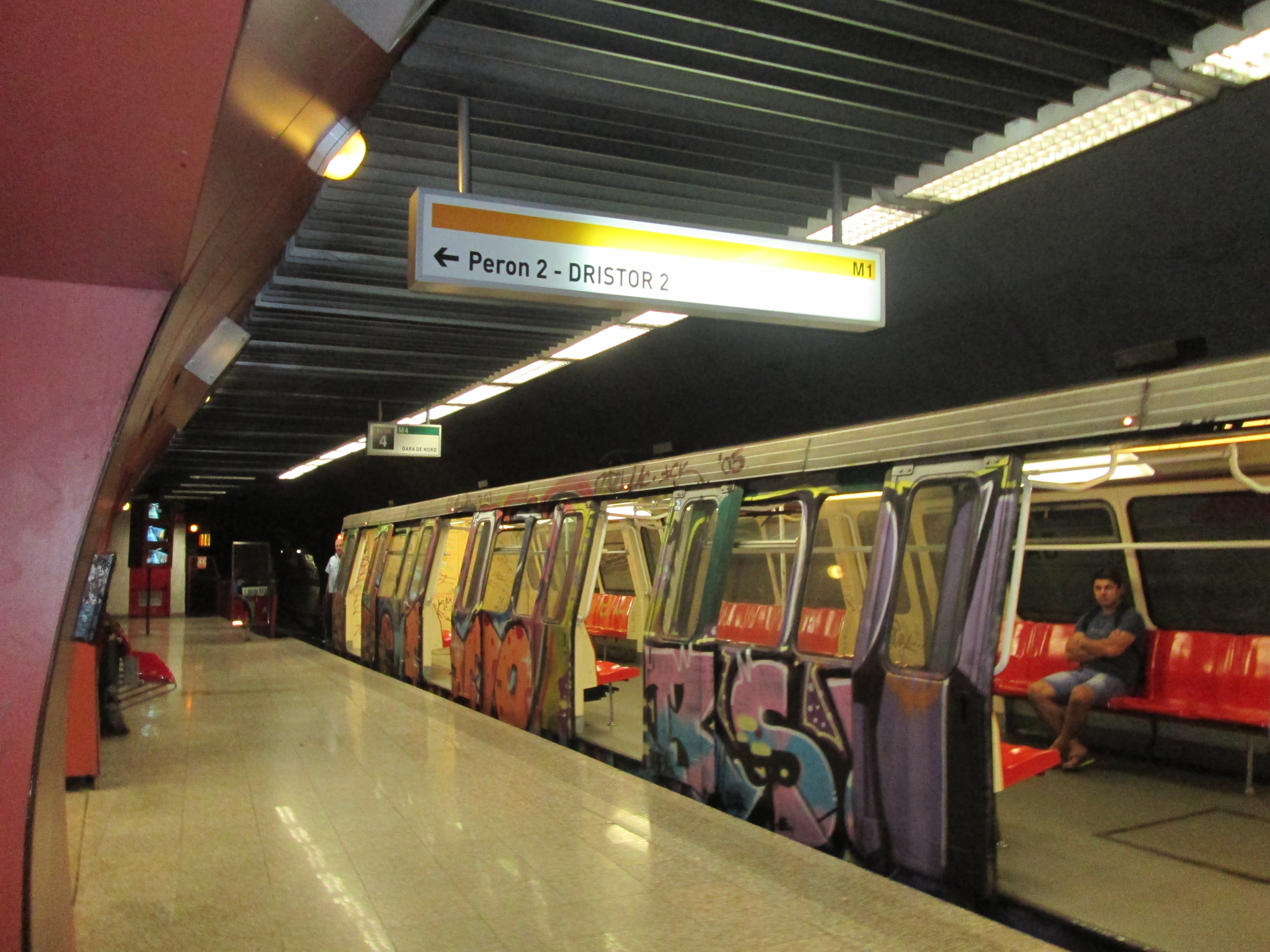 Basarab metro station, Bucharest, Romania. In the picture you an IVA Metro unit is visible